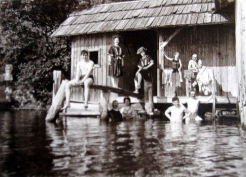 Bathing hut (probably at today's Camping Neubauer) in Dellach in the year 1909 at Lake Millstatt in Carinthia / Austria / EU. At that time the municipality of Obermillstatt, today the municipality of Millstatt.